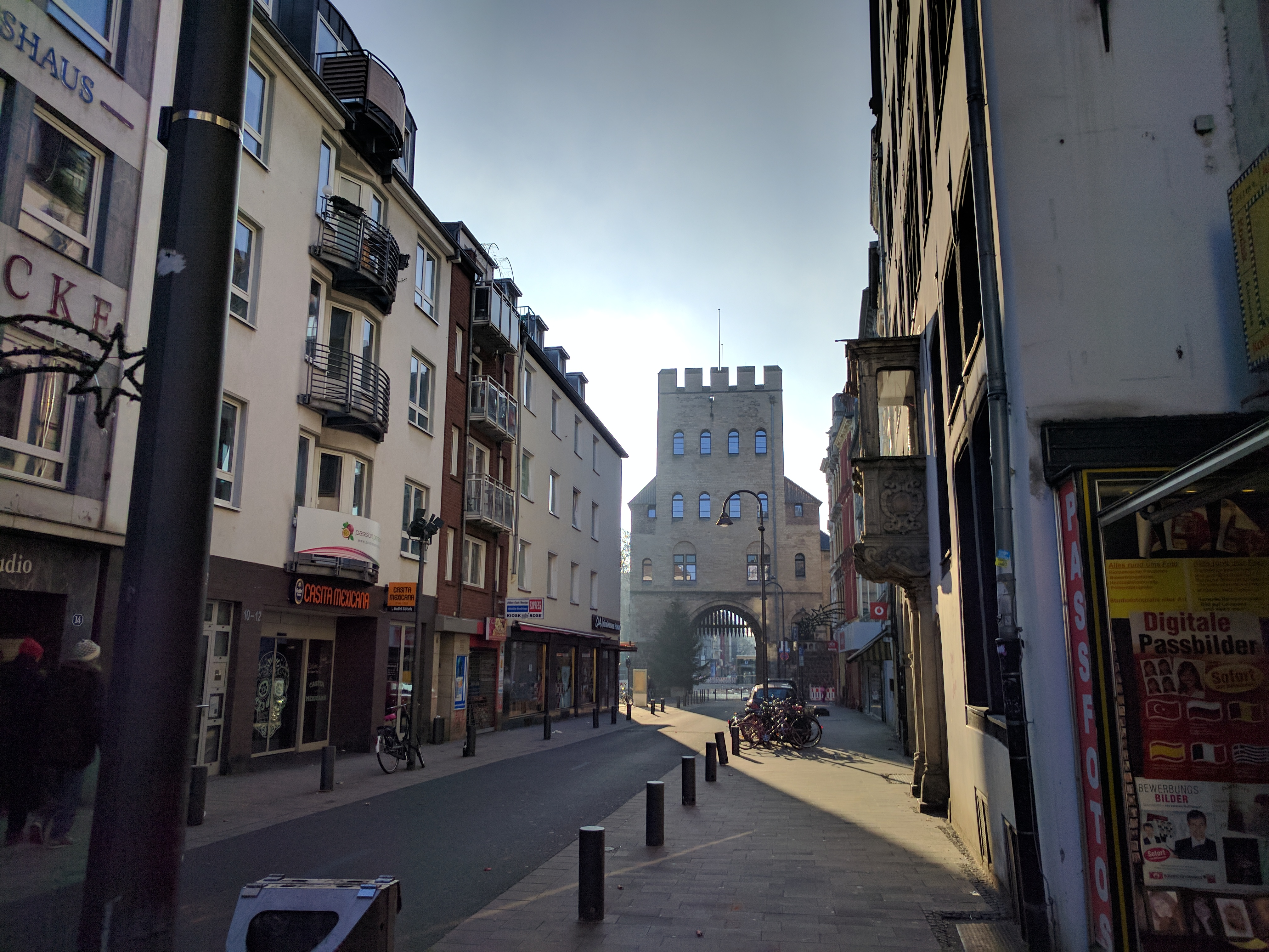 Severinstorburg seen from Severinstraße on a winter's morning.